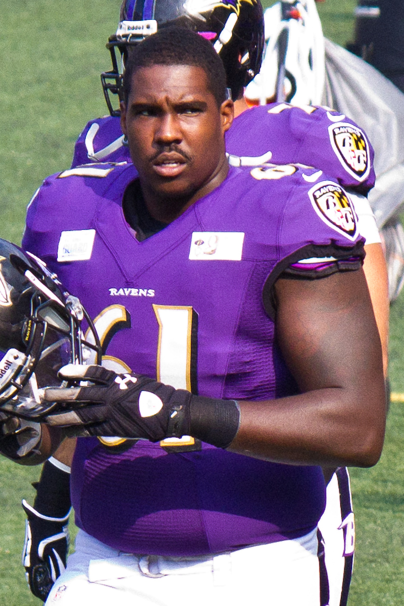 David Mims at Ravens Stadium Practice Aug 2013